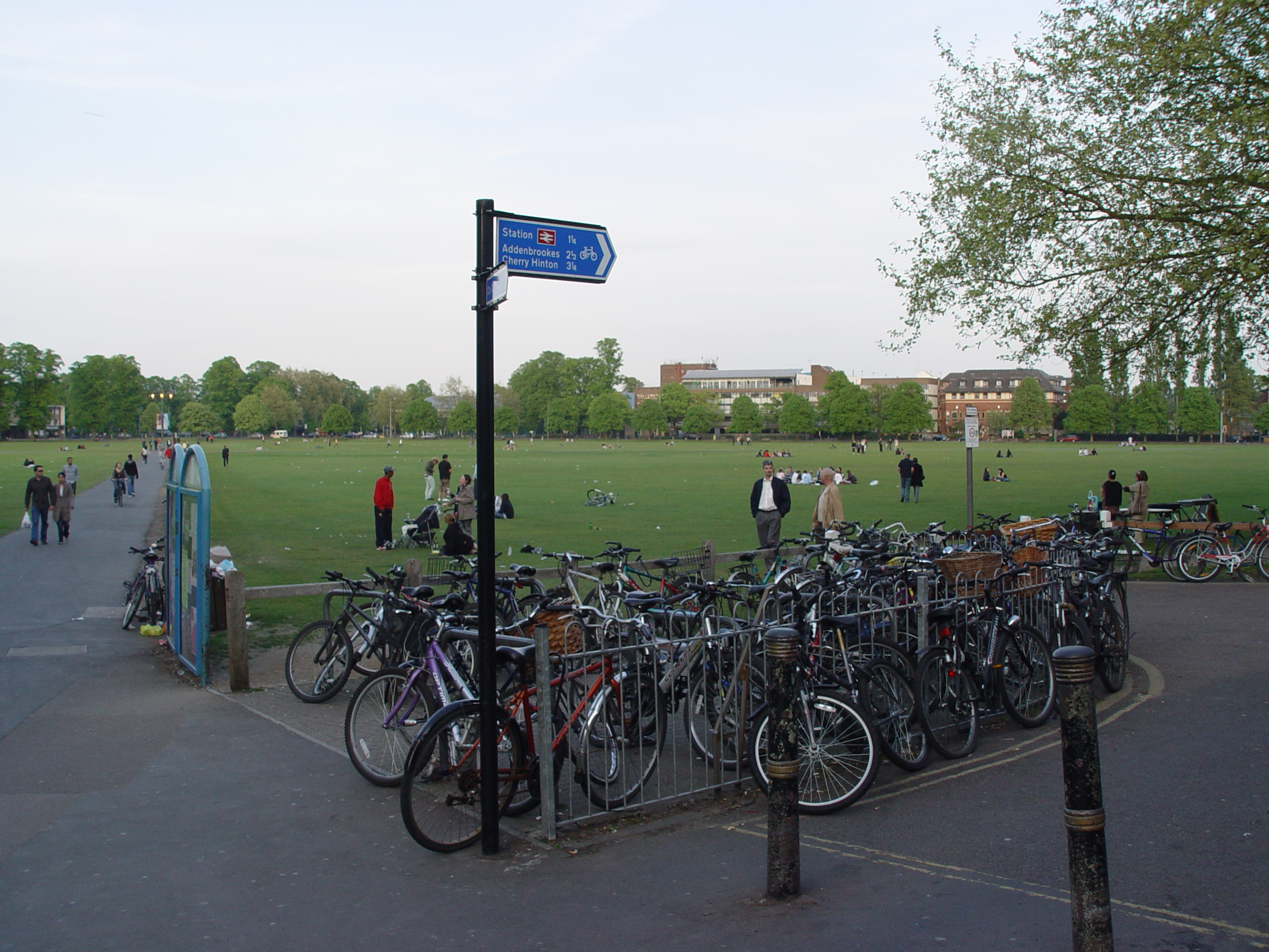 Lots of spots like this are equipped with about 15 bicycle racks. Here, Parker's piece, Cambridge, UK.